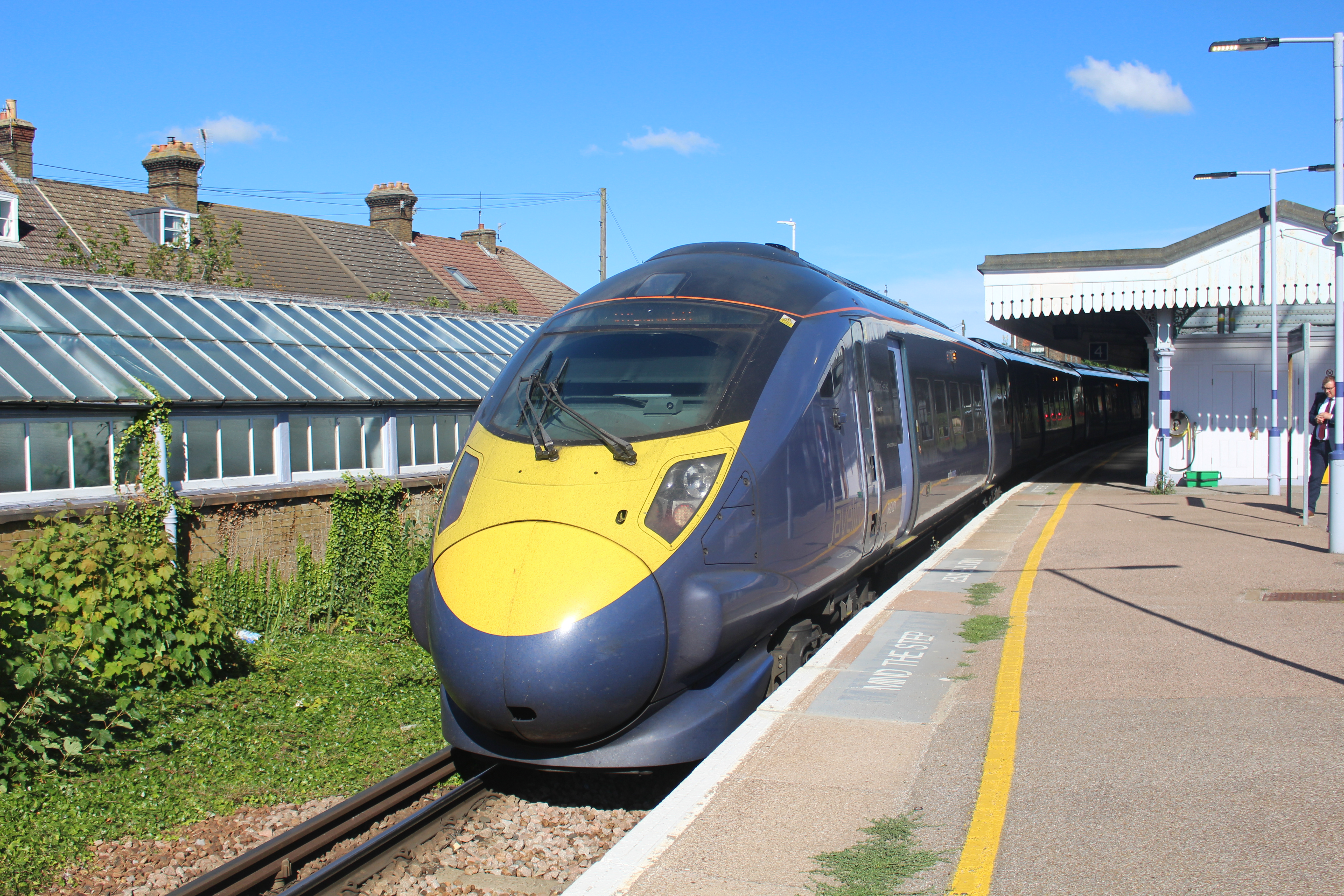 A train.